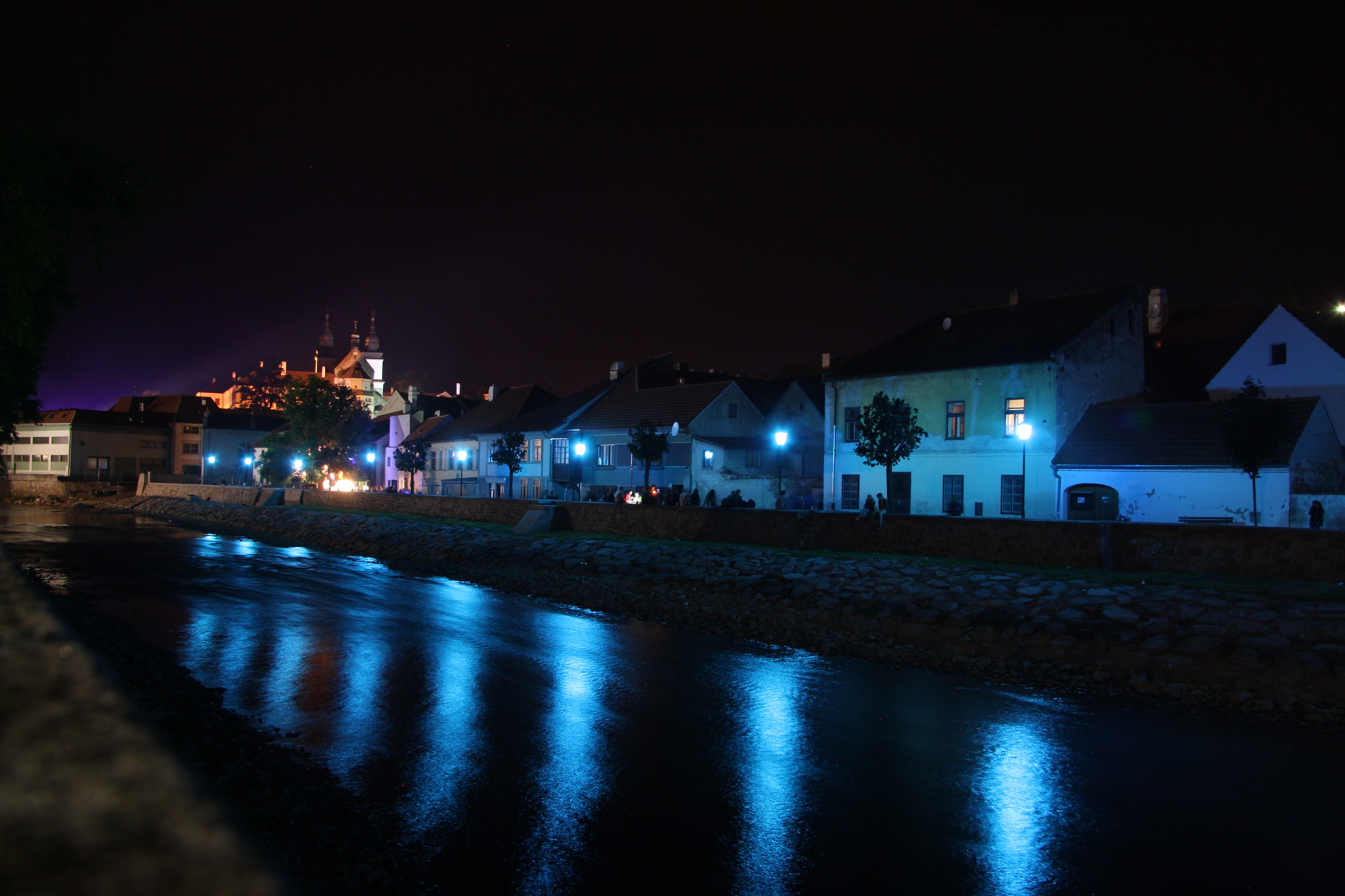 Zámostí in blue at Zámostí 2016 in Třebíč, Třebíč District.